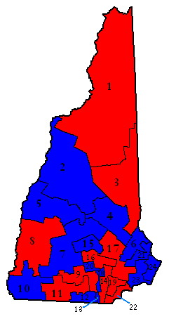 The current districts of the New Hampshire Senate, with Republican seats in red and Democratic seats in blue.